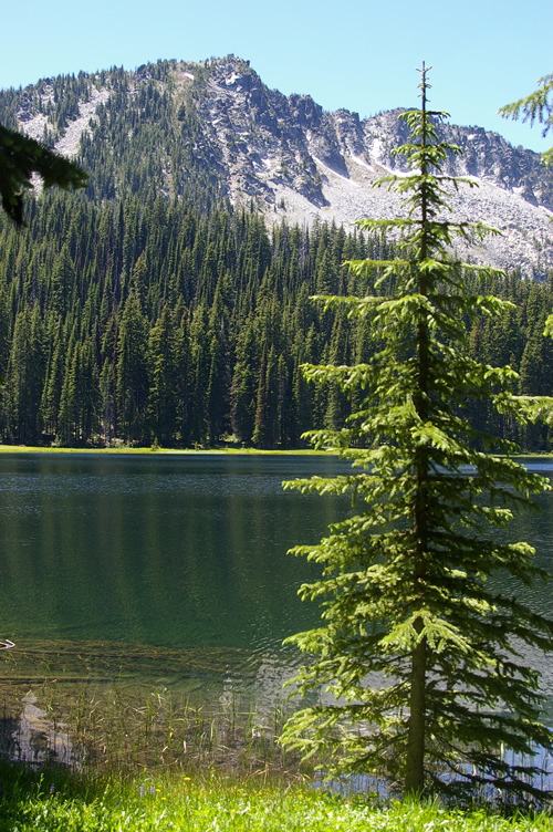 Lake scenery in the North Fork John Day Wilderness, northeastern Oregon, USA